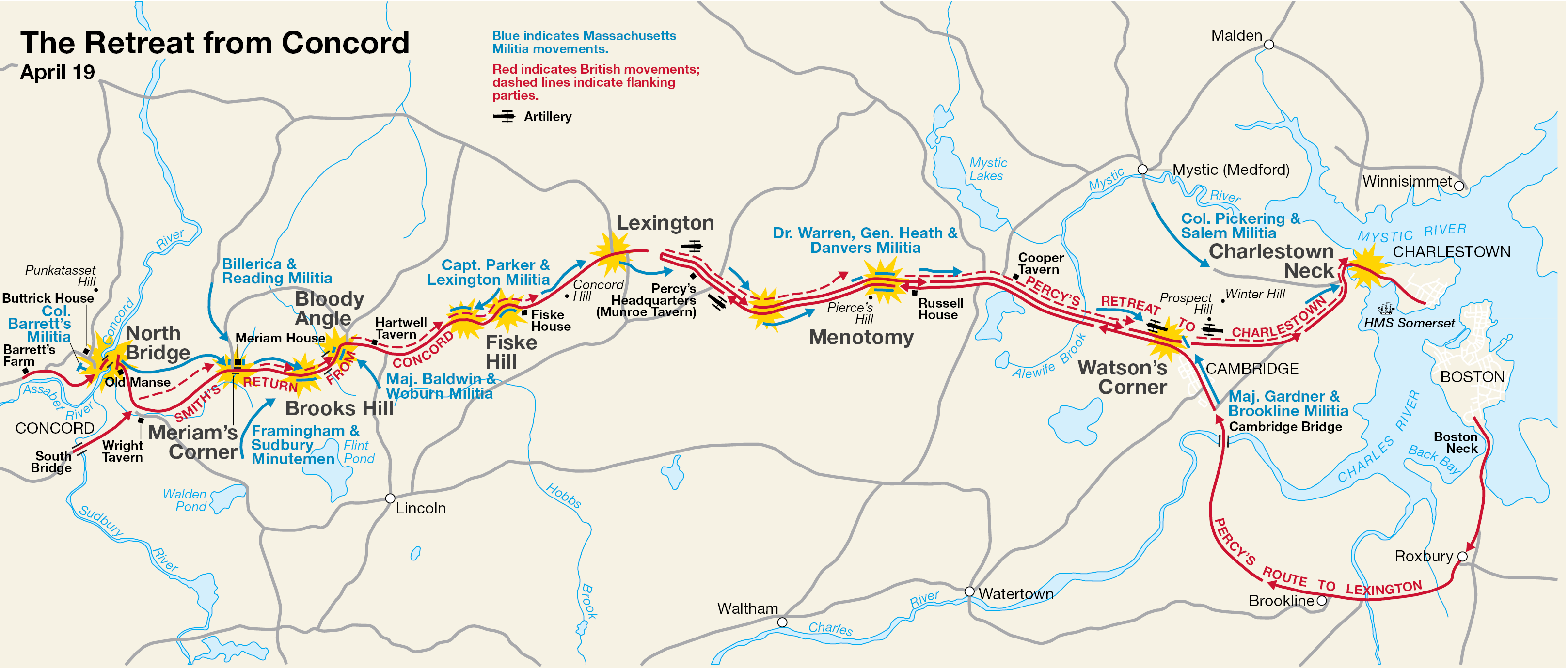 This is a map showing the route of the British army's 18-mile retreat from Concord to Charlestown in the Battles of Lexington and Concord on April 19, 1775. It shows the major points of conflict, as well as showing the route taken by Hugh, Earl Percy's reinforcements.